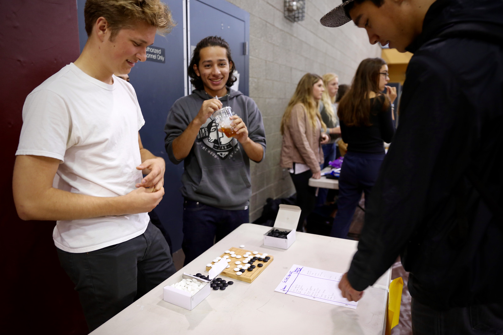 SAAS Club Fair